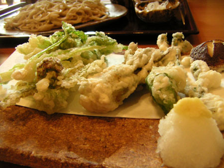 tempura soba , A menu of My fathers's soba(=buckwheat noodles) restaurant